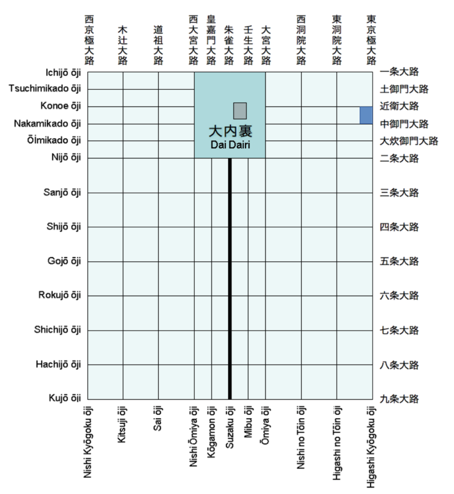 Schematic map of historical Heian-kyō (present-day Kyoto)showing the location of the Greater Imperial Palace (Daidairi) and the Tsuchimikado mansion. Category:Maps of the history of Japan